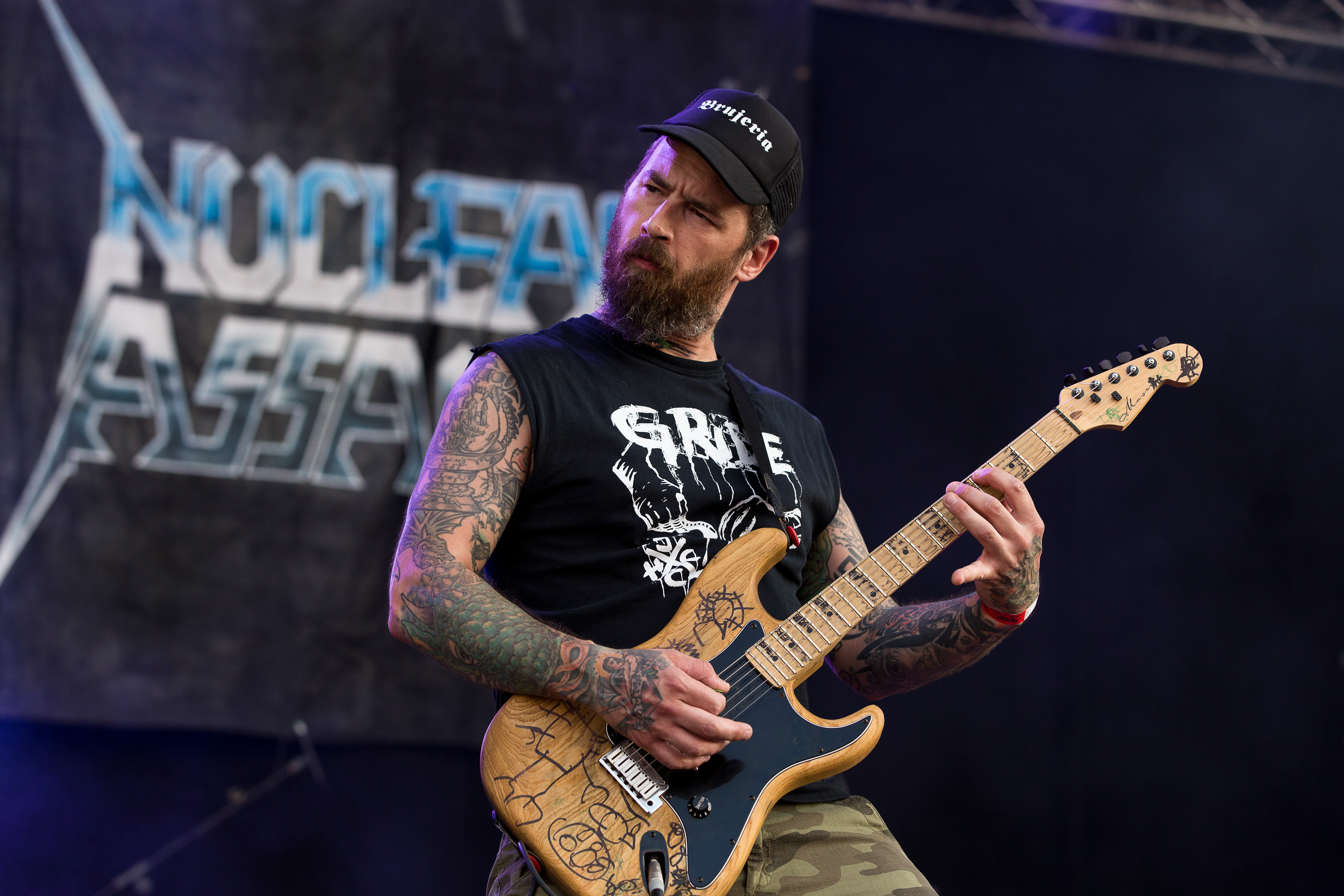 The US thrash metal band Nuclear Assault at the Party.San Open Air 2015 in Obermehler-Schlotheim/Germany.